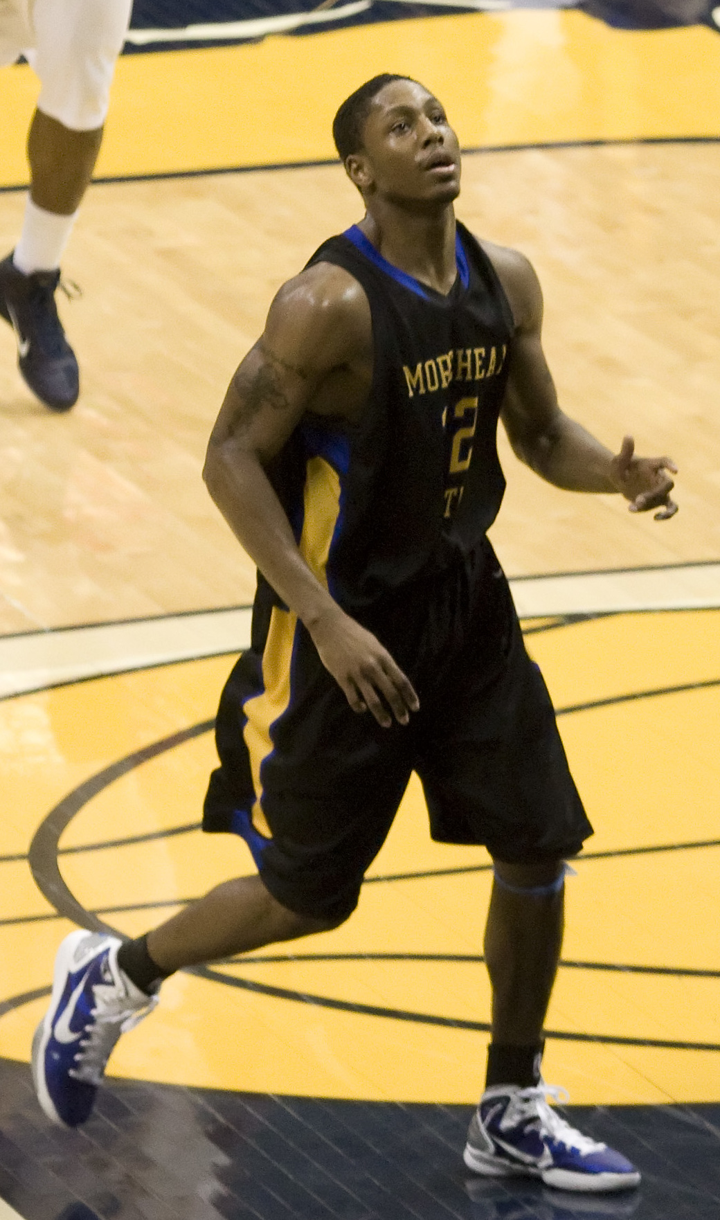 Unidentified Murray State player (foreground, in white), Jeffery McClain (#22 Murray State), Kenneth Faried (behind unidentified player, in black), Demonte Harper (#22; Morehead State), and Ivan Aska (#42; Murray State)